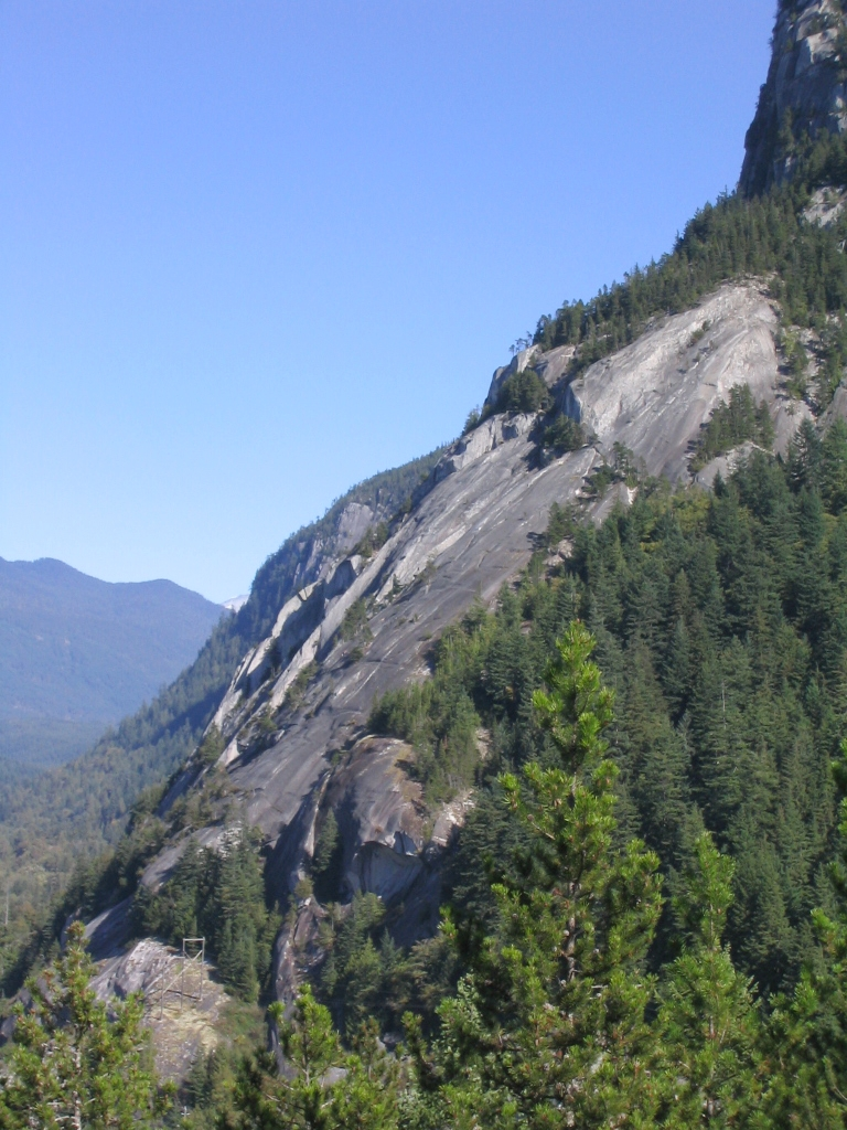 Stawamus Chief. The Chief's "Apron" area, a massive sloping granite slab popular with rock climbers. This photo was taken from the "Malamute" Photo taken by myself (Robb Priestley) of the Stawamus Chief. Taken in Squamish, British Columbia on September 24th, 2005.